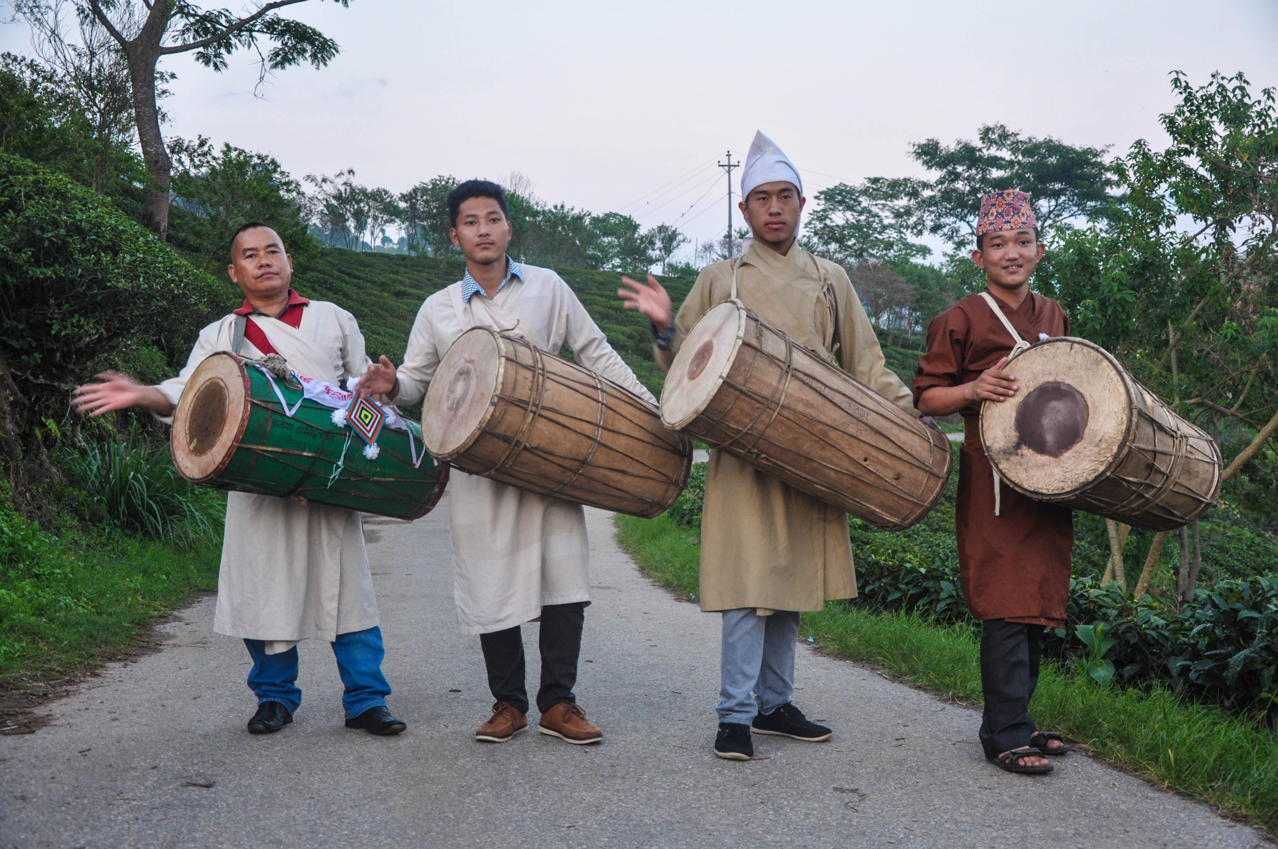 traditional chyabrung dance.its a local people specially rai limbu's local culture at ilam nepal.